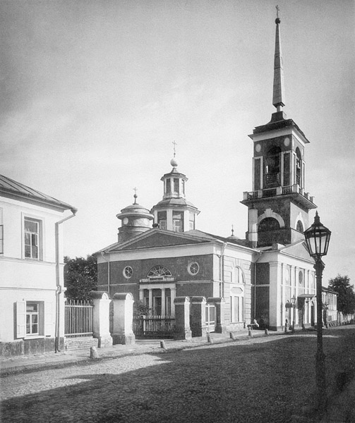 a historical photo of the Arbat District in Moscow / Церковь Николая Чудотворца на Песках Близ Арбата